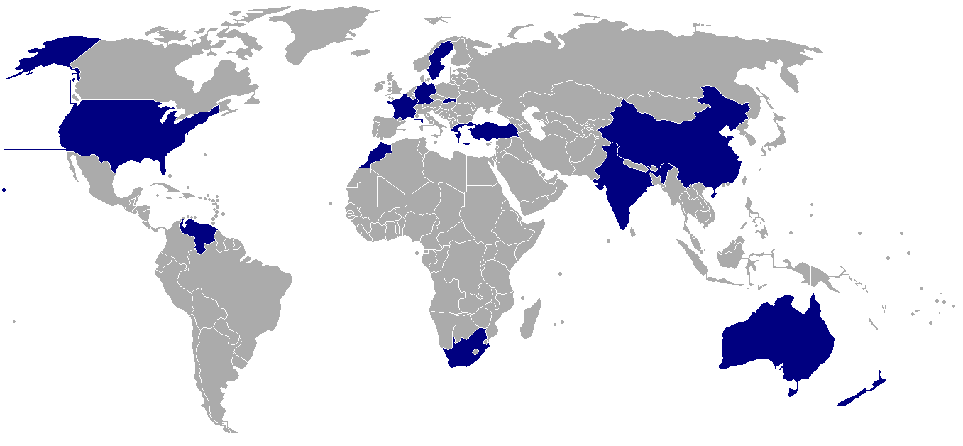 Map showing placements at the Manhunt International pageant. Key on graphic shows colour coding for break down of placements.